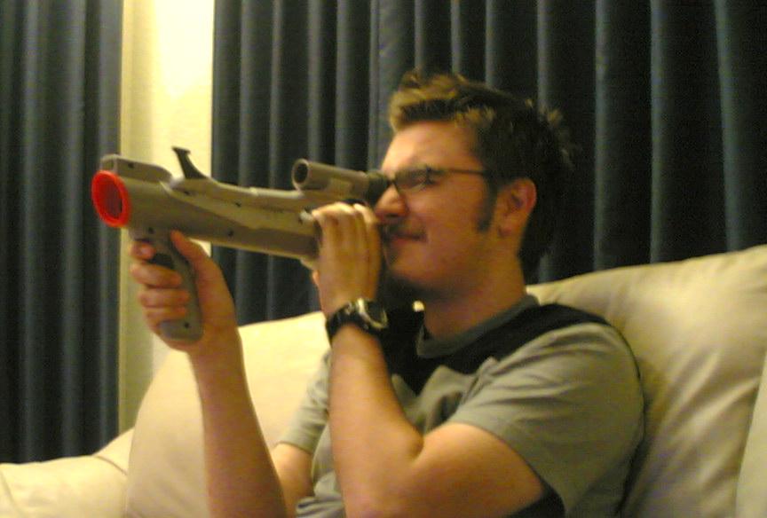 Super Scope (Super Nintendo) in action.